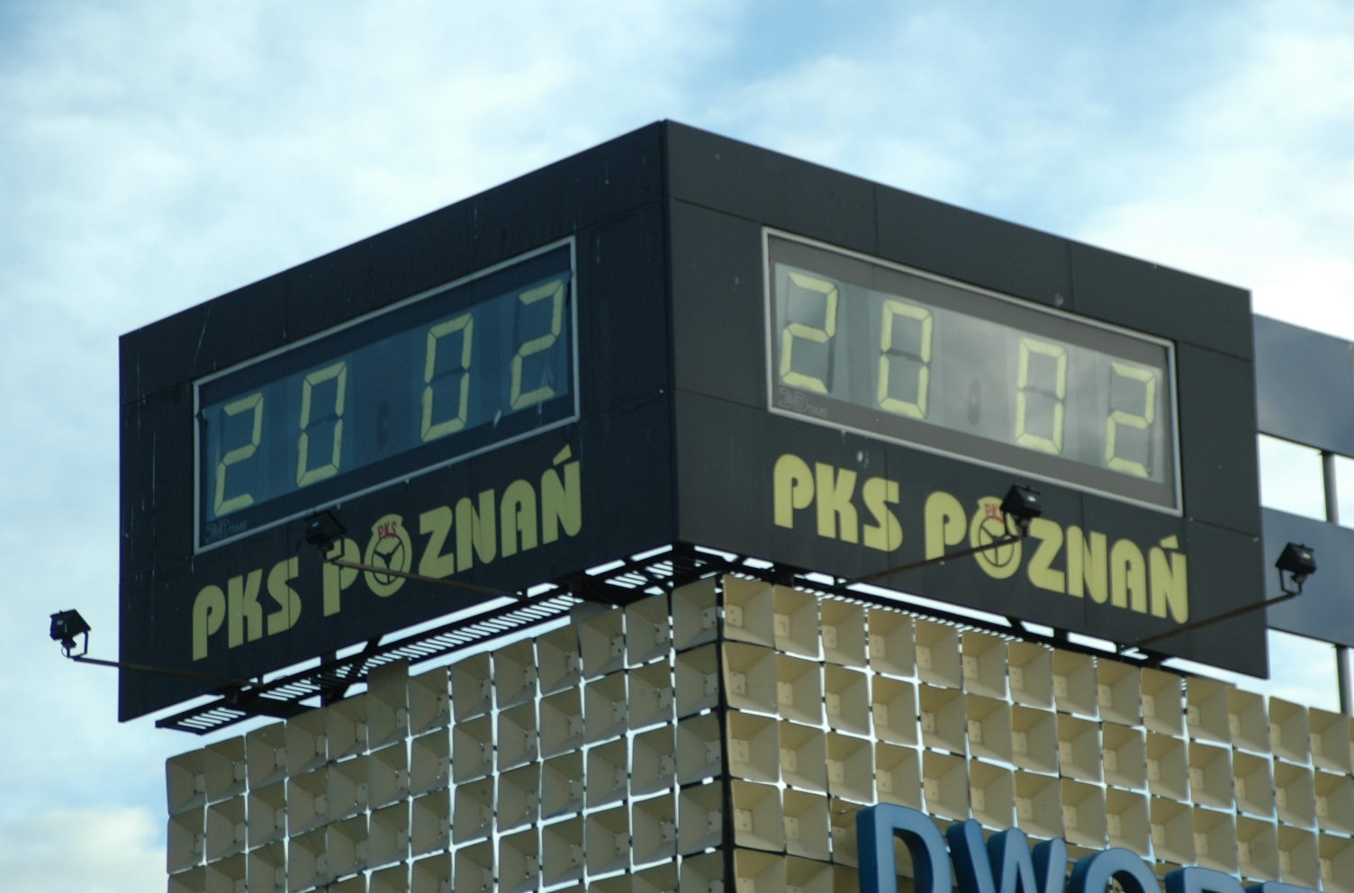 An ambigram in Poznań PKS bus station (Poland)